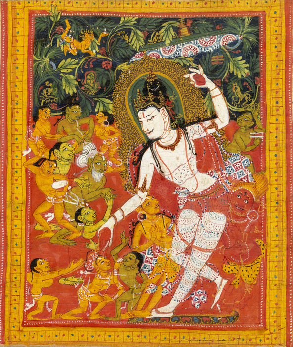 Painting of a bodhisattva benefiting sentient beings. Sanskrit Astasahasrika Prajnaparamita Sutra manuscript written in the Ranjana script. India, early 12th century.